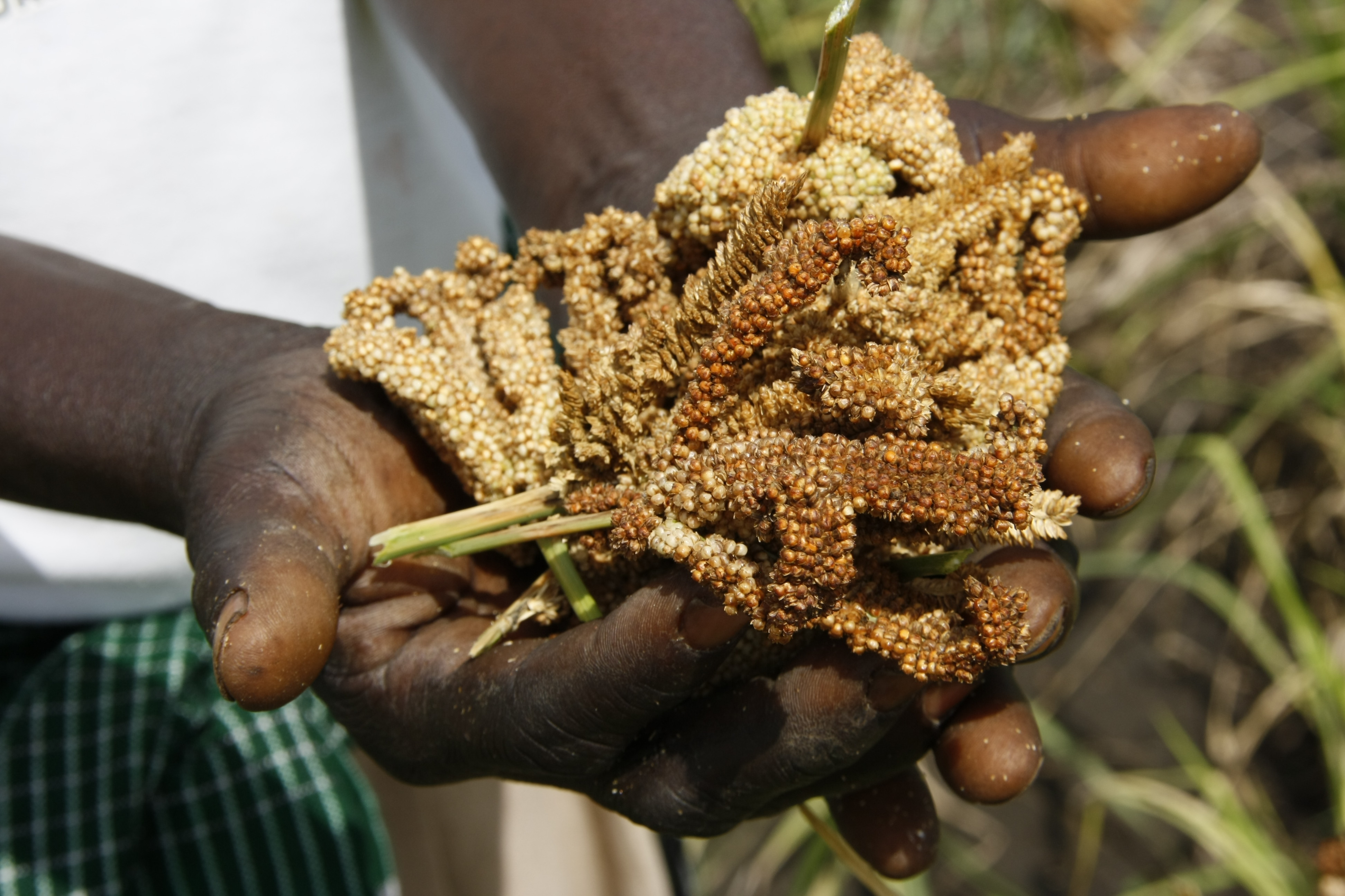 Bicentina Auma, chairperson of a small farmer's co-operative in the Northern Region of Uganda, holds a handful of harvested finger millet. Bicente's co-operative, Ateklu Ba (Powerful with God), has been given a small plot of land to farm by Christopher Lutara, who is benefitting from a private sector grant from UK aid, as part of the Northern Uganda Recovery Programme. The whole programme is designed to help the area's people and economy recover from the ravages of a 20 year war. "I am very grateful to Chris," says Bicente. "Since he came, life has changed. I can now afford to send my children to school." UK aid is supporting the recovery of the region with a five year programme that has helped 10,000 vulnerable people to return home, provided vocational training for 4,000 young people who missed out on education, and is providing match-funding for the private sector to help kick-start the local economy.